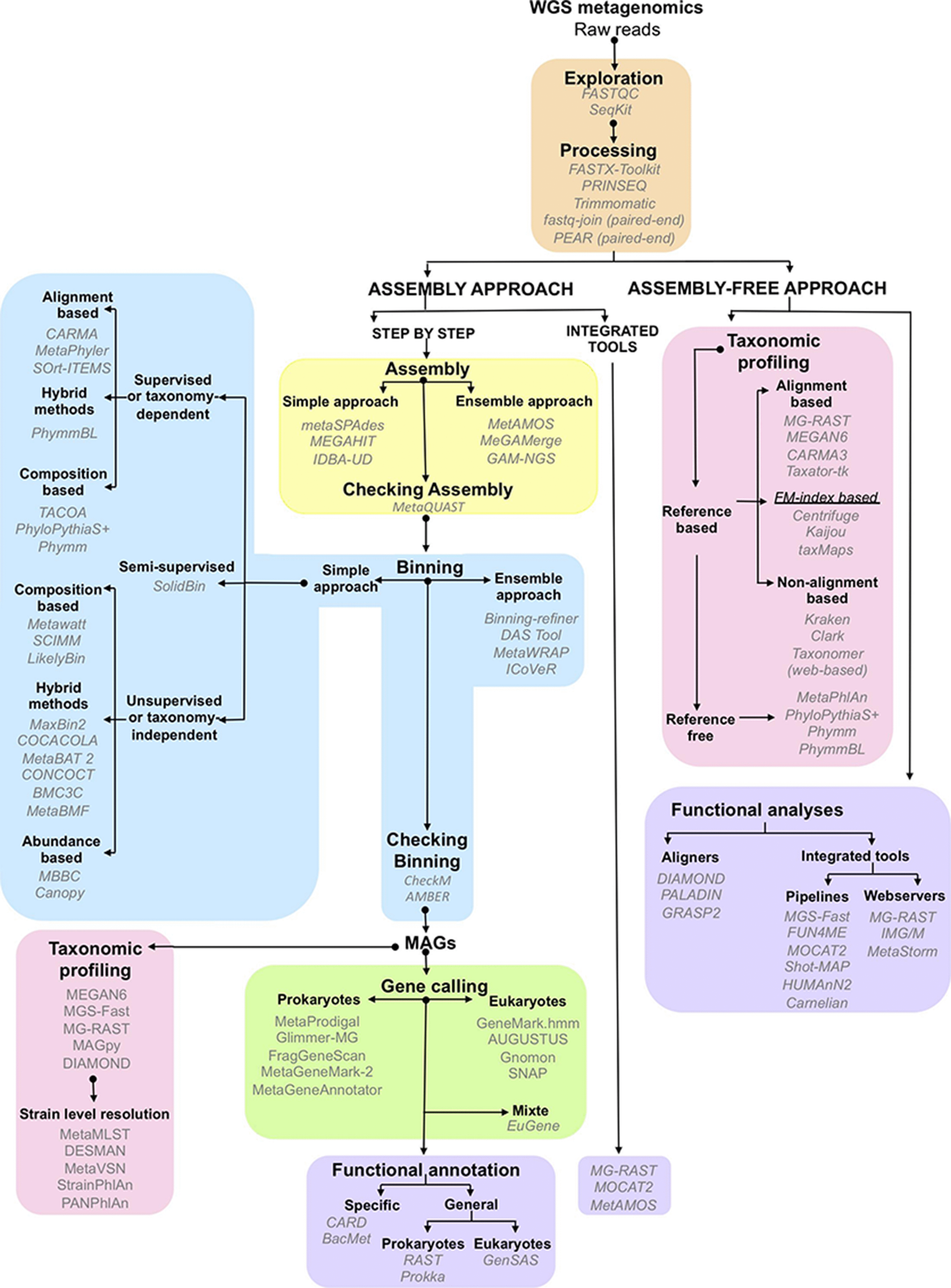 Fig. 1 in Pérez-Cobas AE, Gomez-Valero L, Buchrieser C. Metagenomic approaches in microbial ecology: an update on whole-genome and marker gene sequencing analyses [published online ahead of print, 2020 Jul 24]. Microb Genom. 2020;10.1099/mgen.0.000409. Figure caption in the publication: Schematic representation of the main steps necessary for the analysis of WGS metagenomics derived data. The software related to each step is shown in italics.